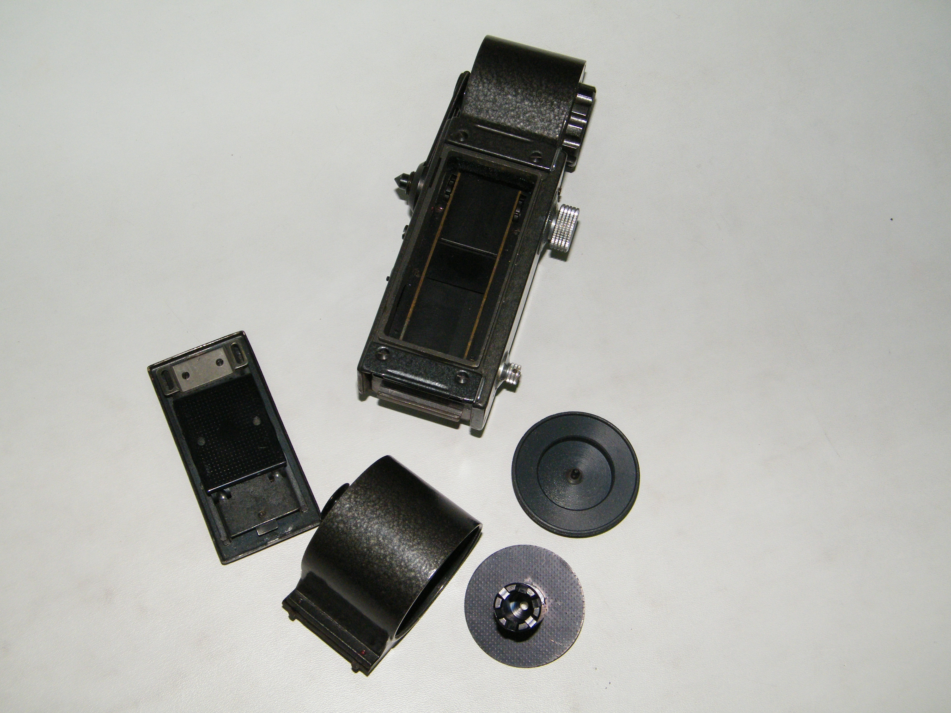 Elochka camera